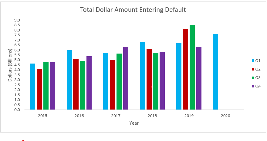 This graph tracks the total number of dollars in billions that are entering default